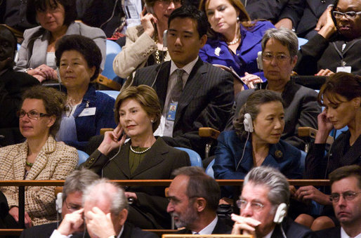 Mrs. Laura Bush listens from the audience as President George W. Bush delivers his address Tuesday, Sept. 23, 2008, to the United Nations General Assembly in at the U.N. Headquarters in New York City. Sitting with her from left are: Dr. Cheryl Benard, spouse of U.S. Ambassador to the United Nations Zalmay Khalilzad; Mrs. Yoo Soon-taek, spouse of U.N. Secretary-General Ban Ki-moon, and Mrs. Carla Bruni Sarkozy, spouse of French President Nicolas Sarkozy. White House photo by Chris Greenberg